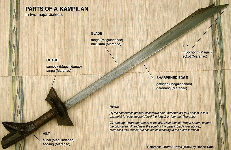 Parts of the Moro longsword kampilan, indicated in the two major dialects of Mindanao Island, i.e., Maranao and Maguindanao. The above sample is probably late-19th to early-20th century. Dimensions -- overall length: 943 mm (37.1 inches); blade length: 689 mm (27.1 inches); and maximum blade thickness 7 mm (1/4" inch) Other uploaded materials by the same author are here: (a) Luzon weapons; (b) Visayan weapons; (c) Moro weapons; and (d) Lumad (non-Moro Mindanao) weapons